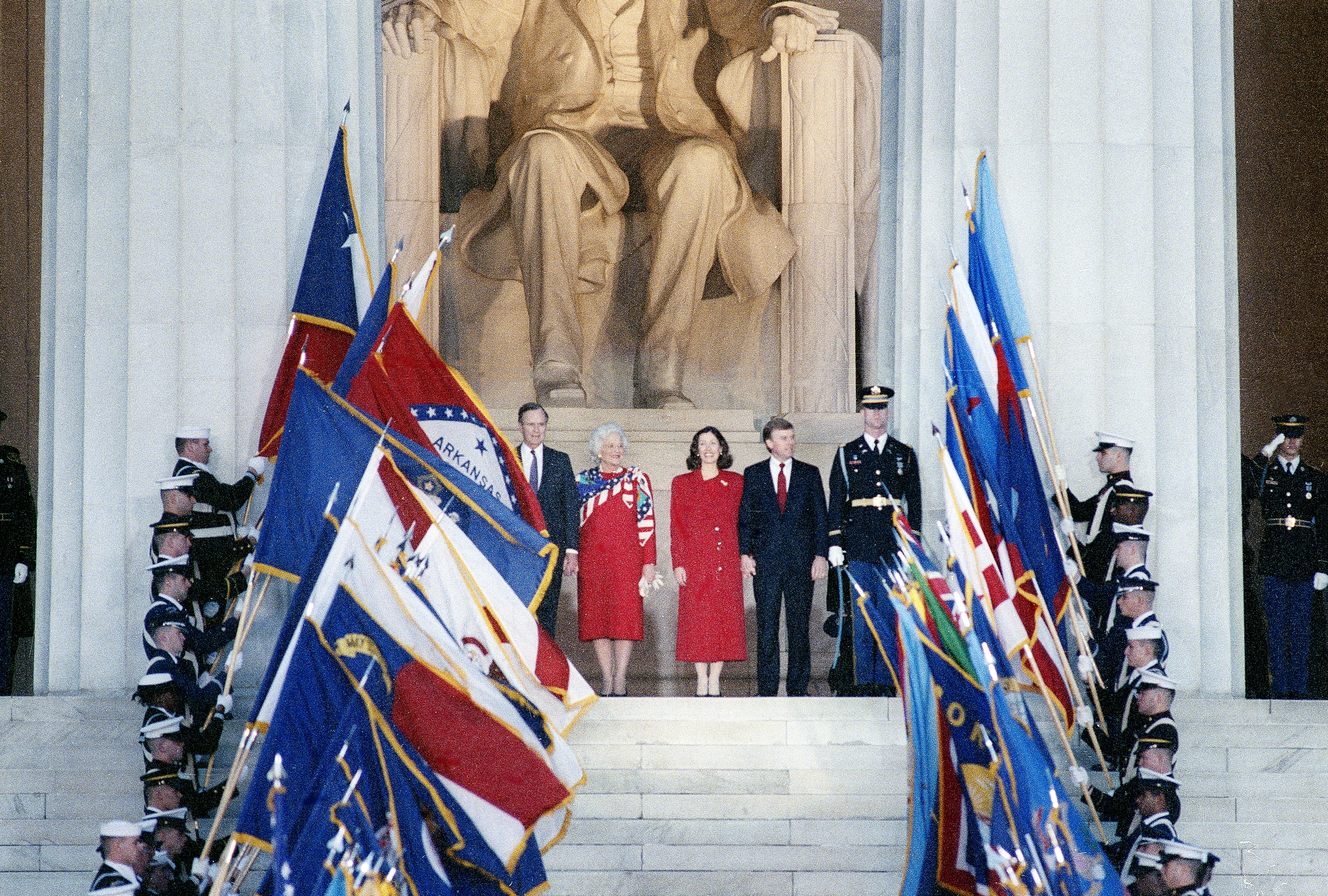 Description: 89-2821.36, 1989 Presidential Inauguration, George H. W. Bush, Opening Ceremonies, at Lincoln Memorial, from 35mm color negative. Creator/Photographer: Jeff Tinsley Medium: C-type print Culture: American Date: 1989 Persistent URL: Repository: Smithsonian Institution Archives/Smithsonian Photographic Services Accession number: 89-2821.36